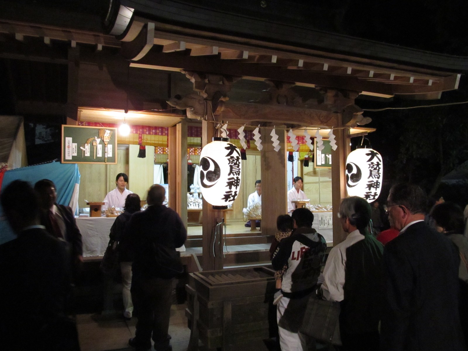 Tori-no-ichi festival at Okunitama Shrine in Fuchu, Tokyo, Japan